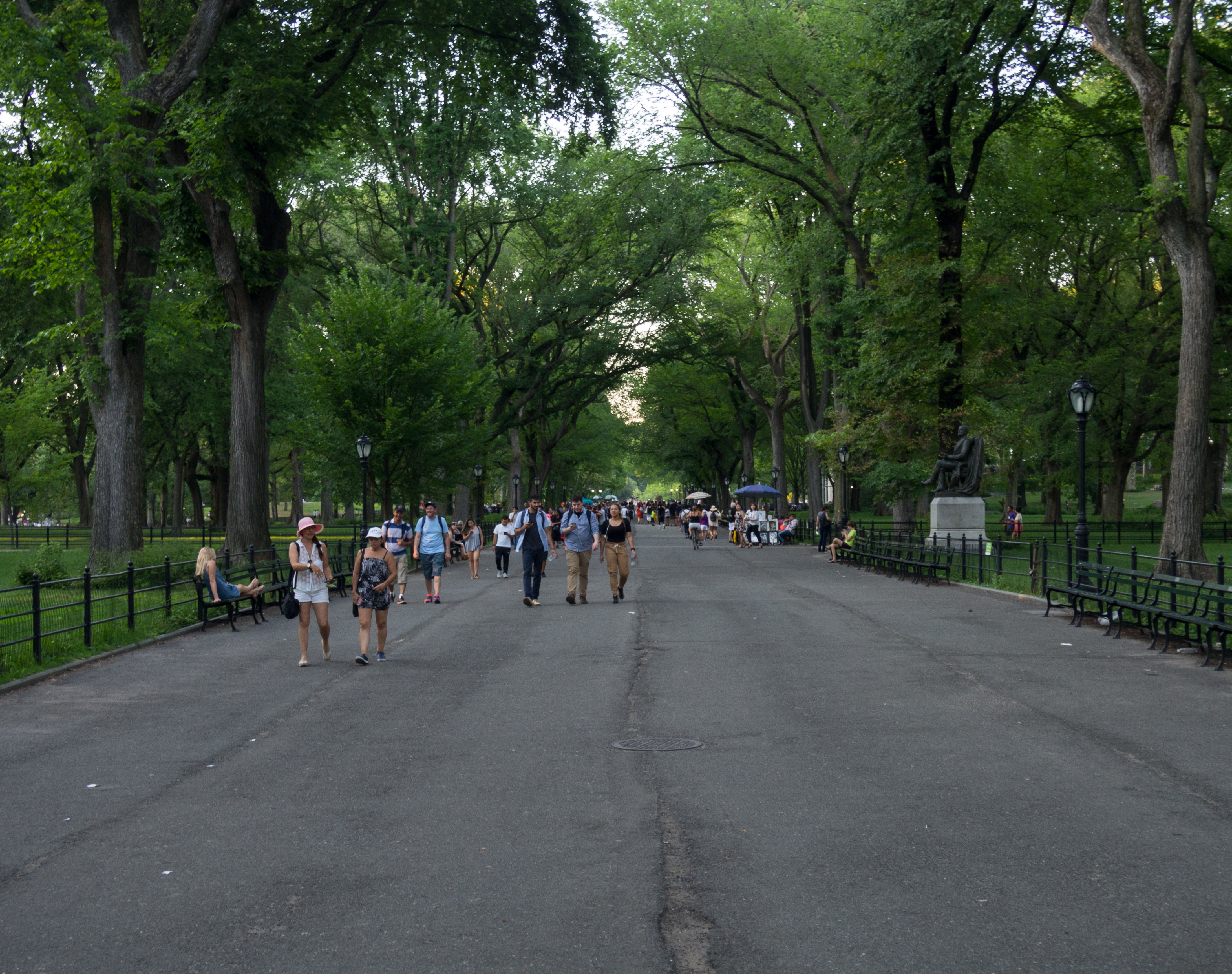 Central Park Mall and Literary Walk.